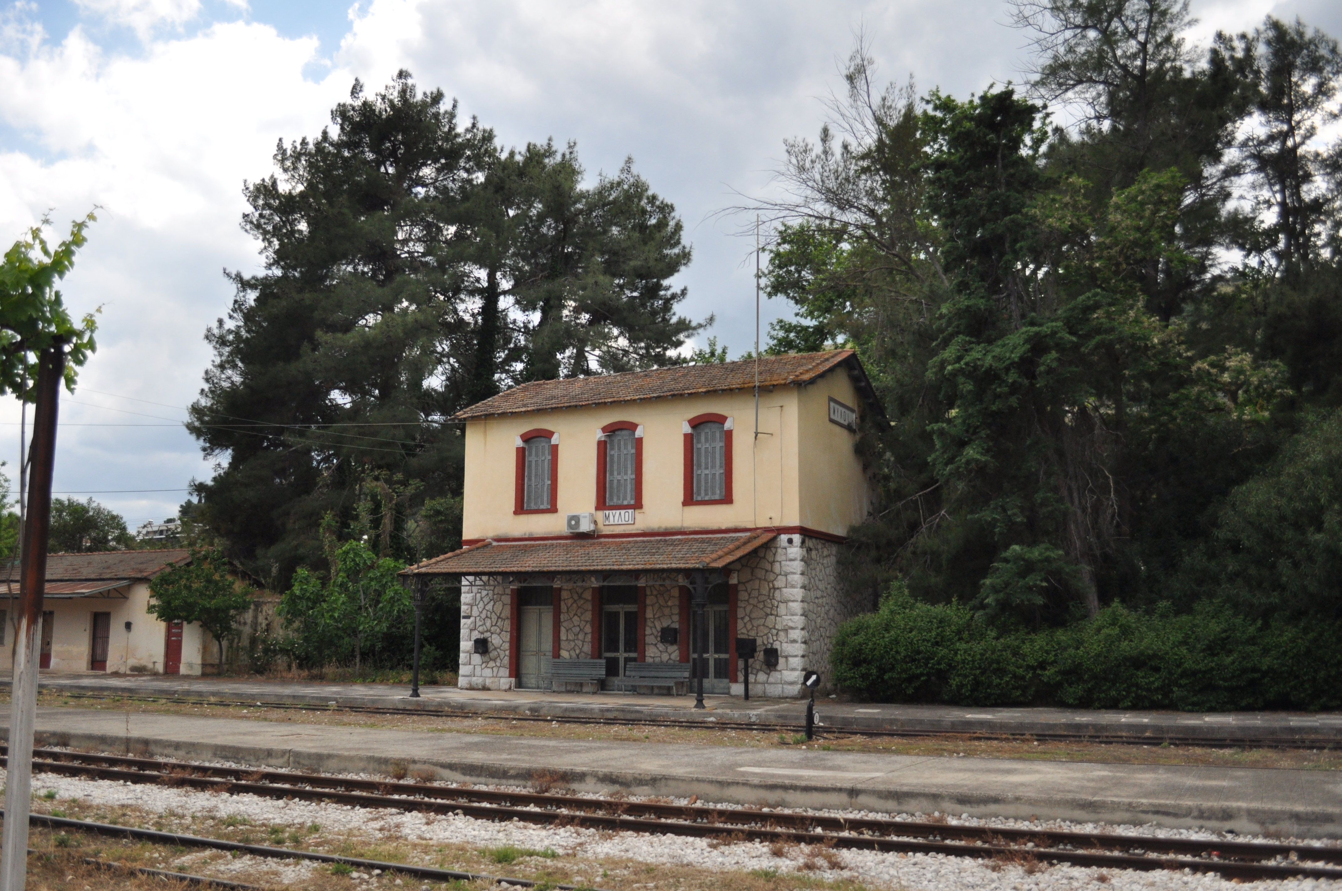 The railwaystation of Myloi in Greece